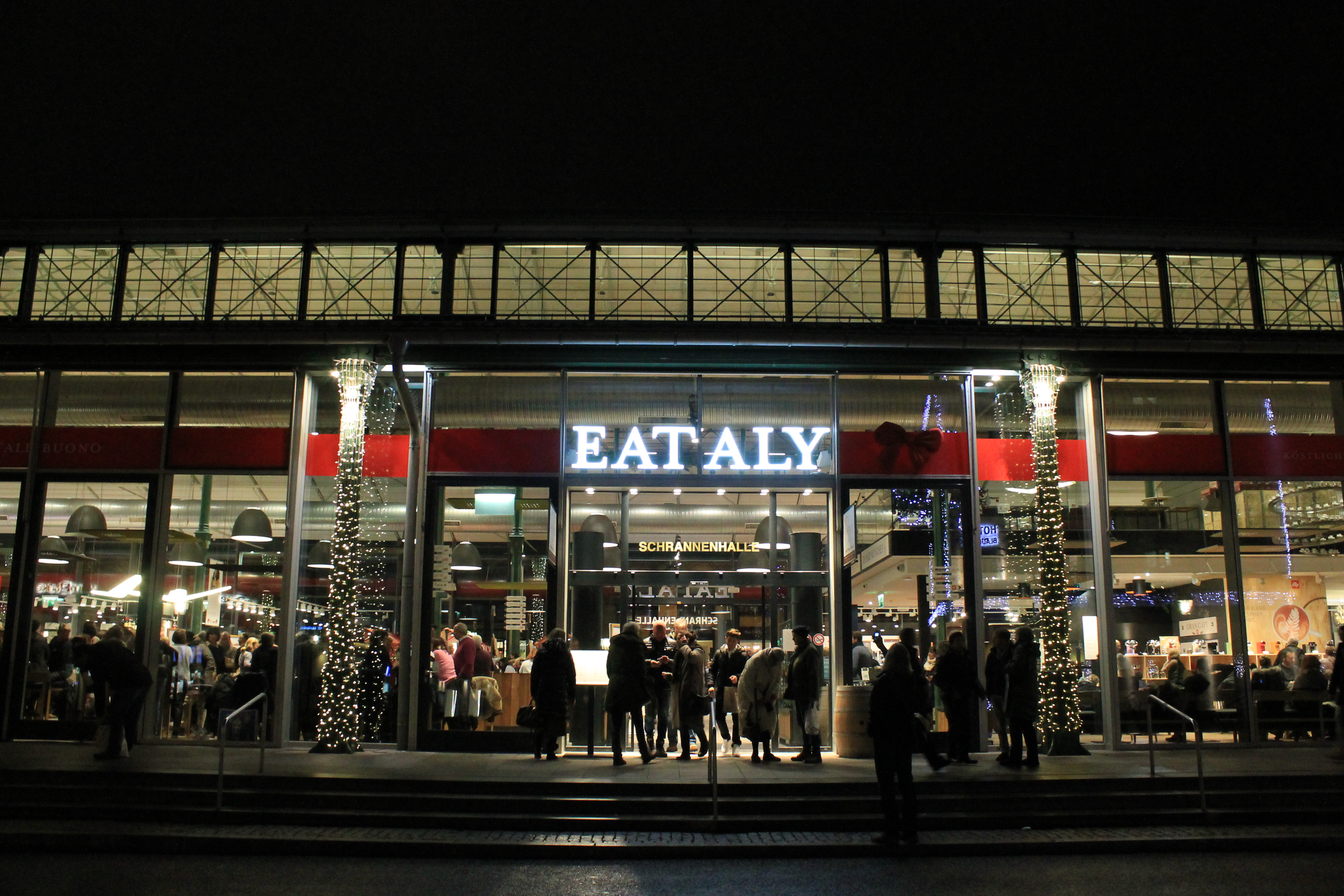 Eataly in Schrannenhalle, Munich